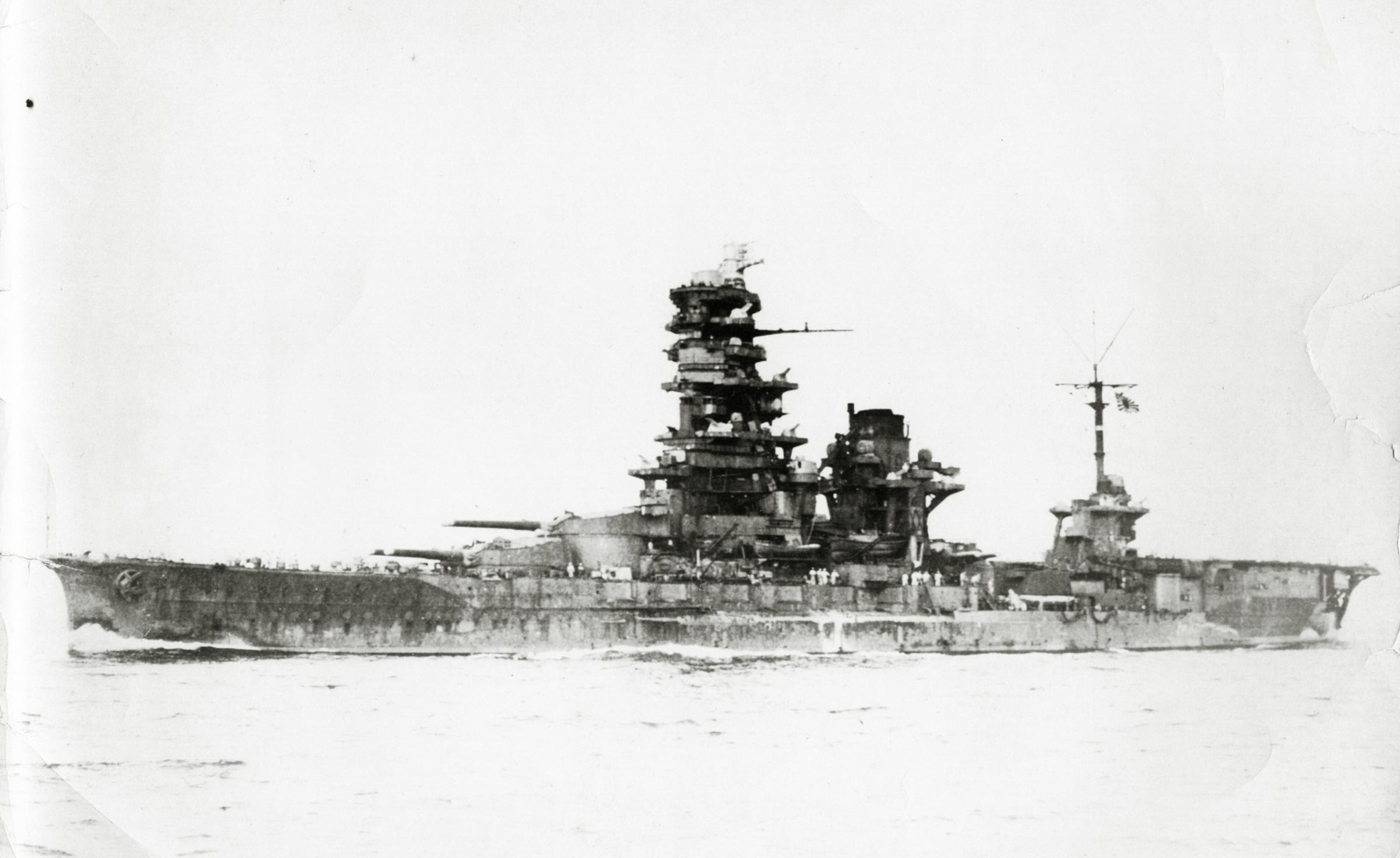 Battleship-carrier Hyūga after conversion